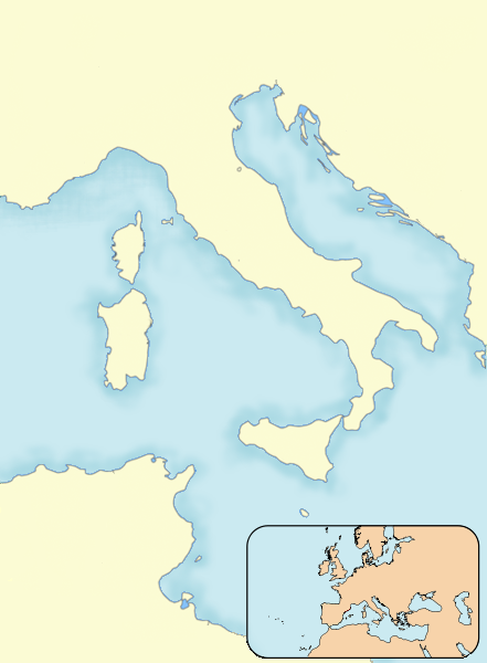 Mapa del mediterrani central